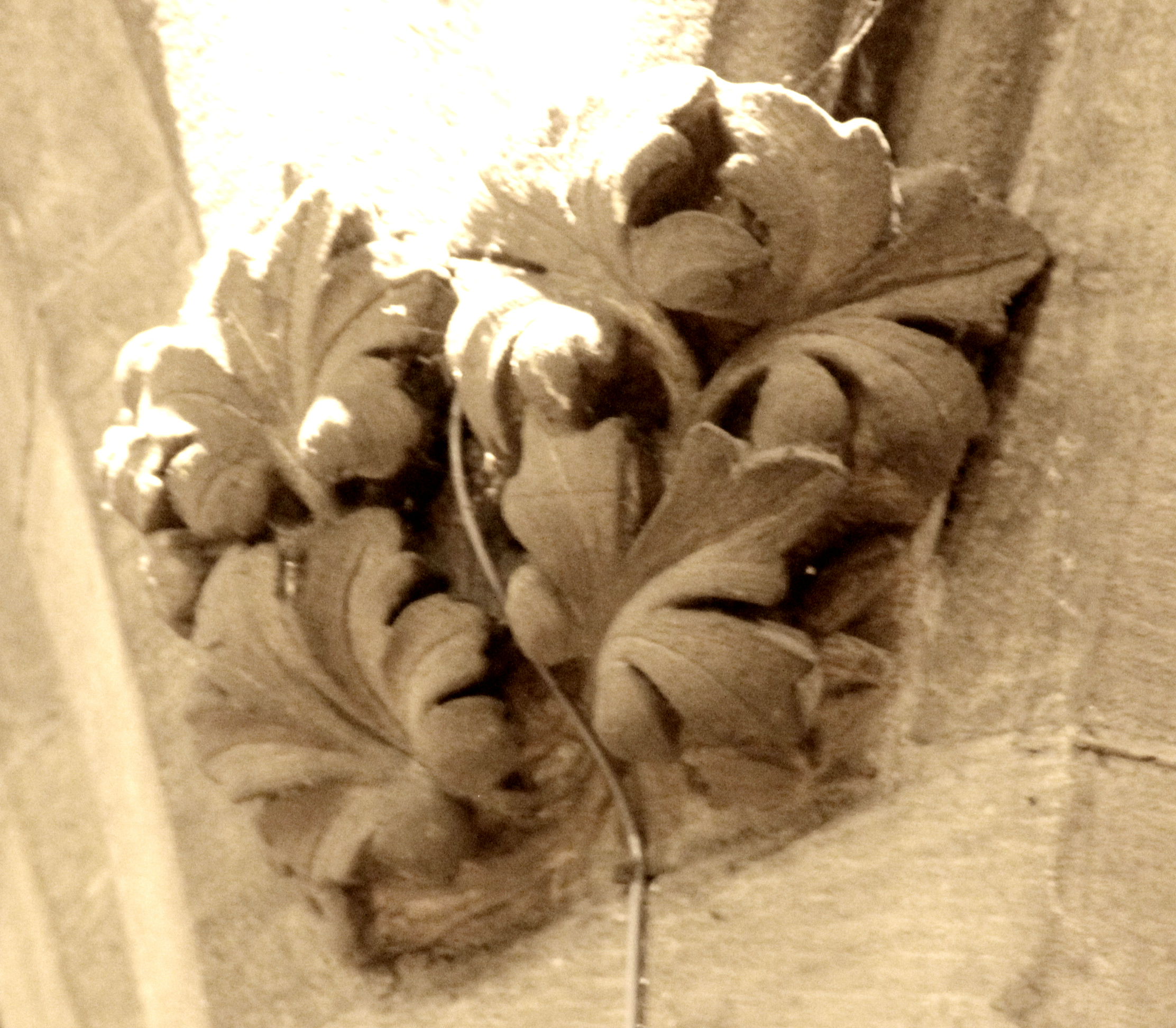 Label stop in interior of St Stephen's Church, Kirkstall, West Yorkshire, England. The building was designed by Stephen Dennis Chantrell and consecrated in 1829. It was renovated by Perkin and Backhouse in 1864, and during this renovation Burstall and Taylor added the carved label stops and corbels inside the building, and a carved Caen stone font. That font was recently removed.